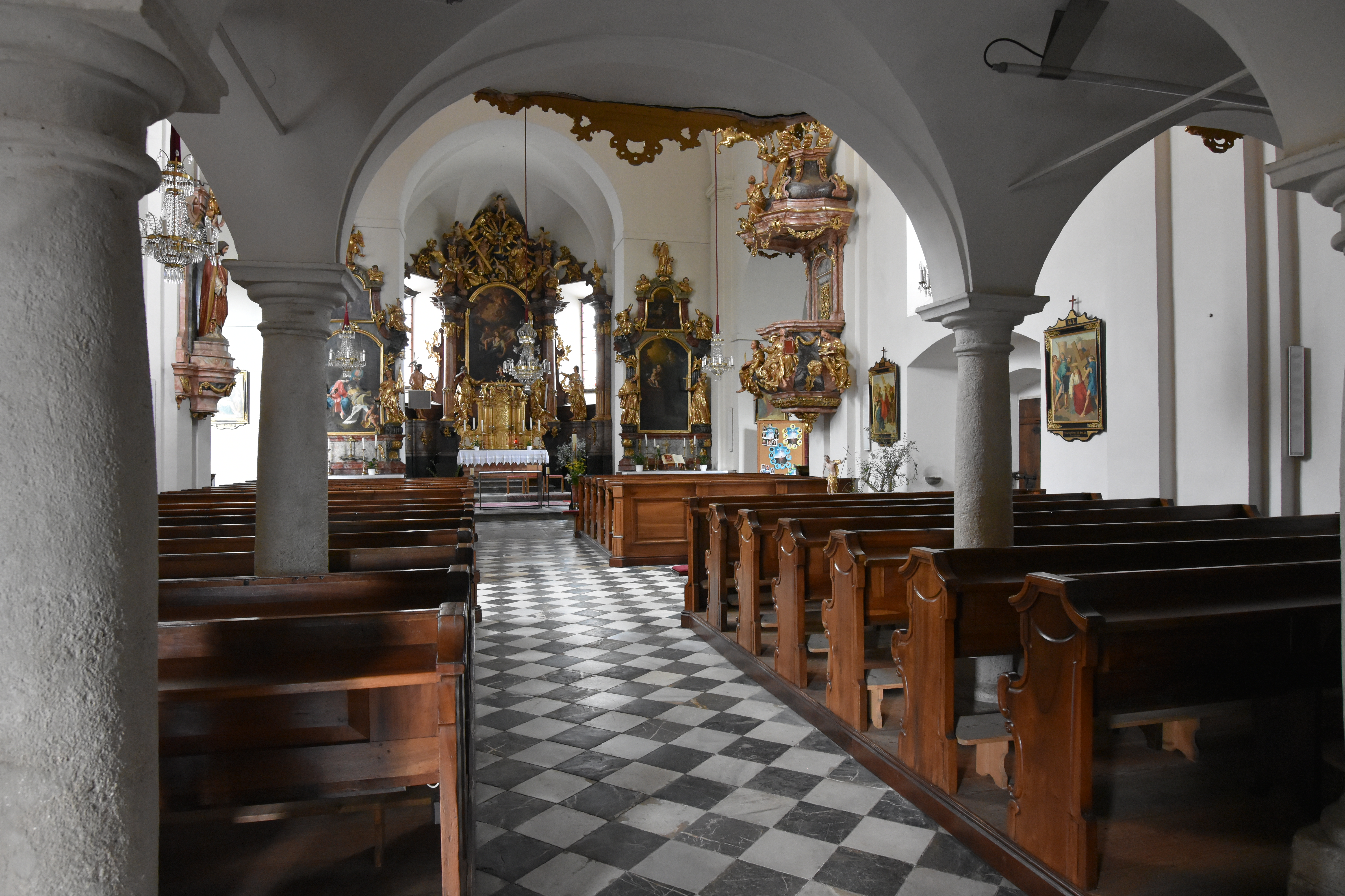 Church hl. Magdalena, Wildon - Interior